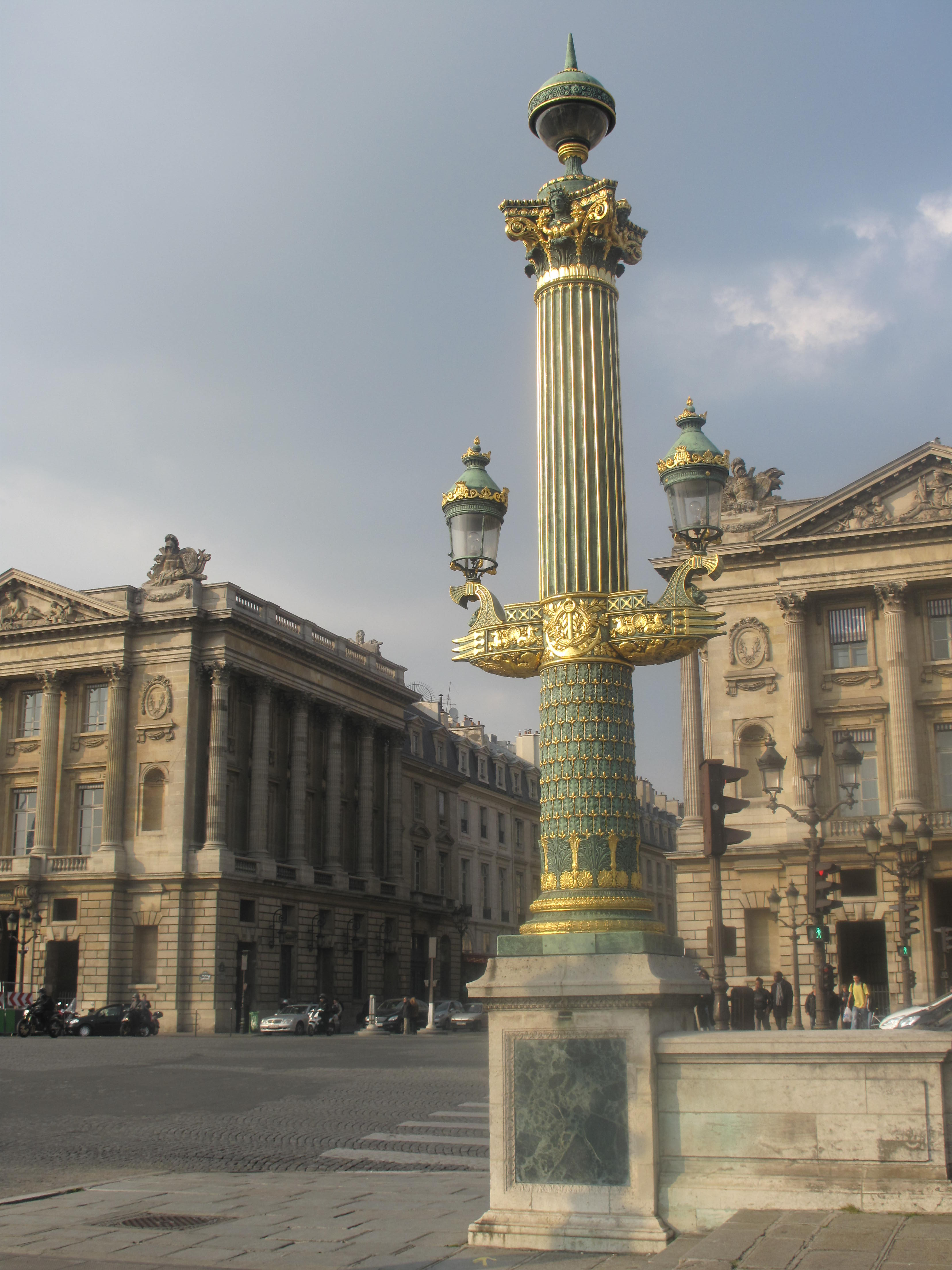 Streetlamp of the place de la Concorde, Paris 1st arrond. In the background, the hôtel Crillon on the left and the ministère de la Marine (=Minister of the Navy) on the right.